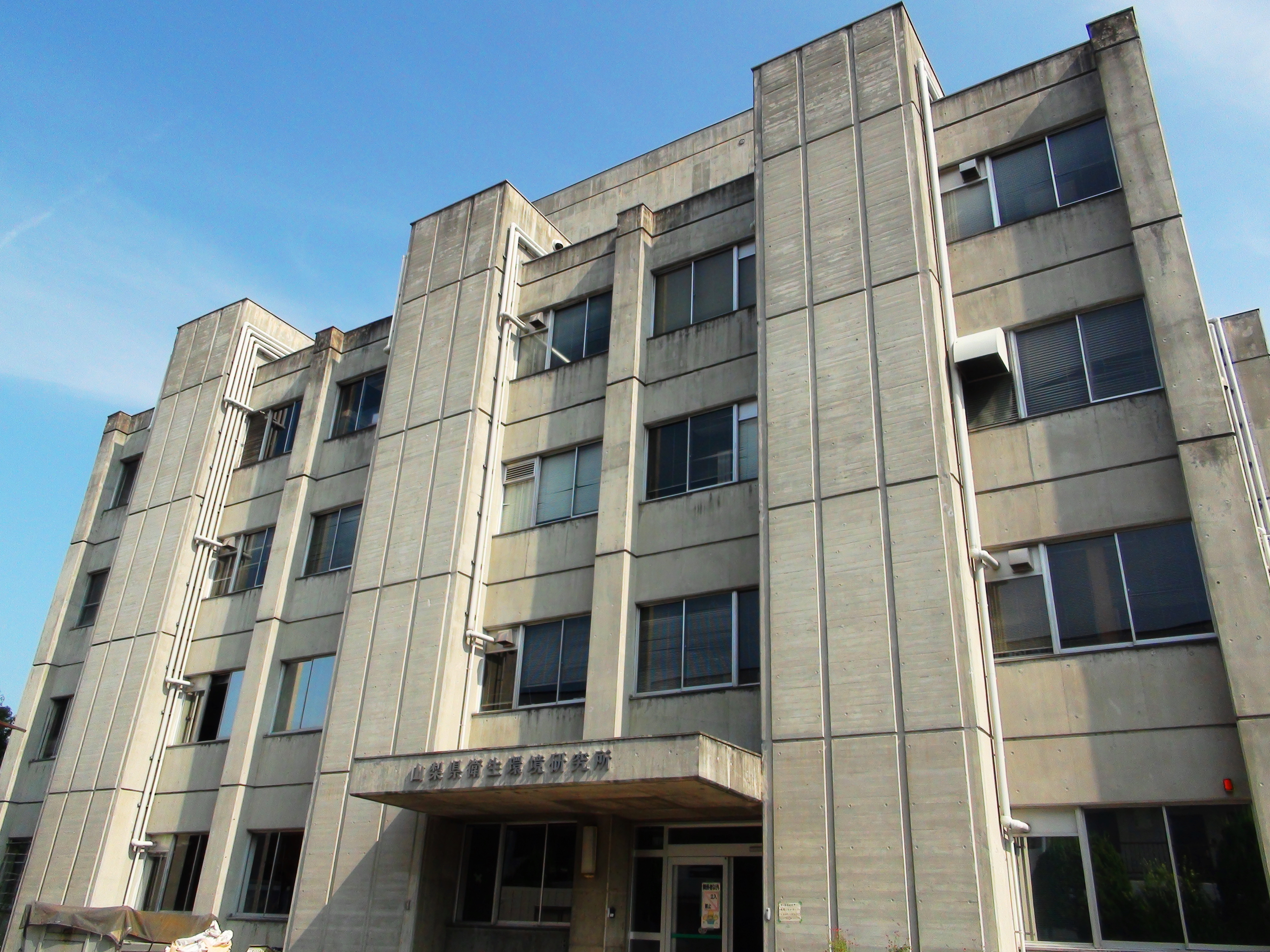 Yamanashi hygiene environmental research institute